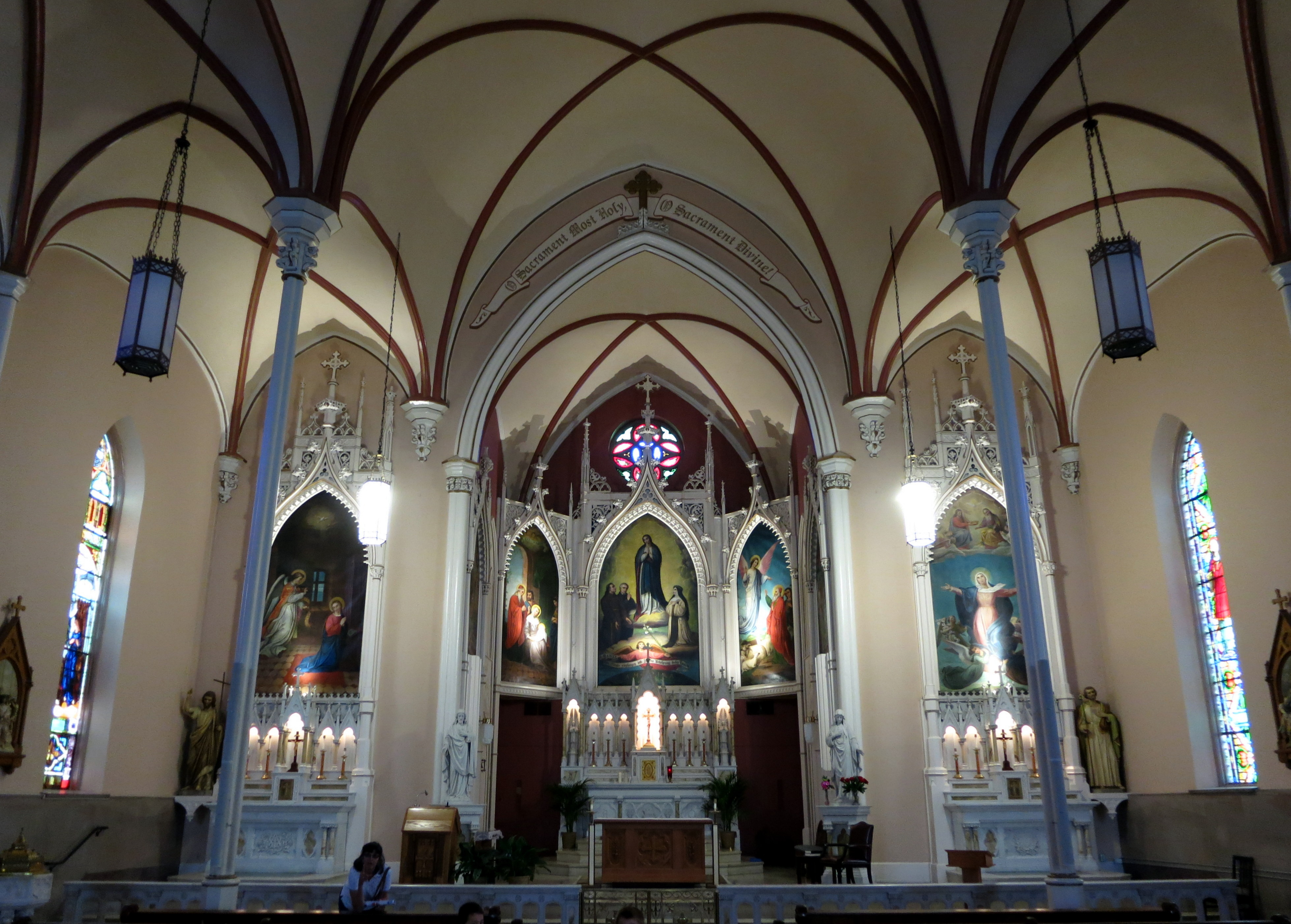 Holy Cross-Immaculata Church (Cincinnati, Ohio) - nave